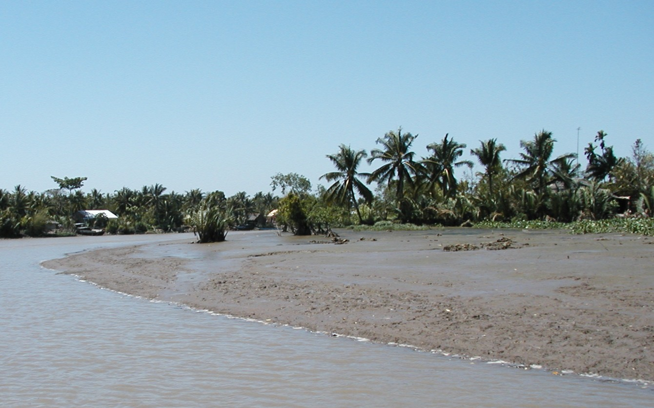 Alluvium on Mekong bank, Vietnam